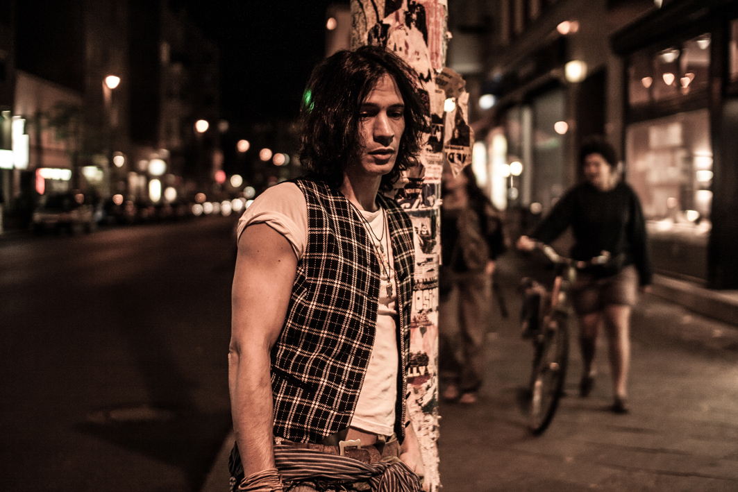 Robby Maria (Press 2013)